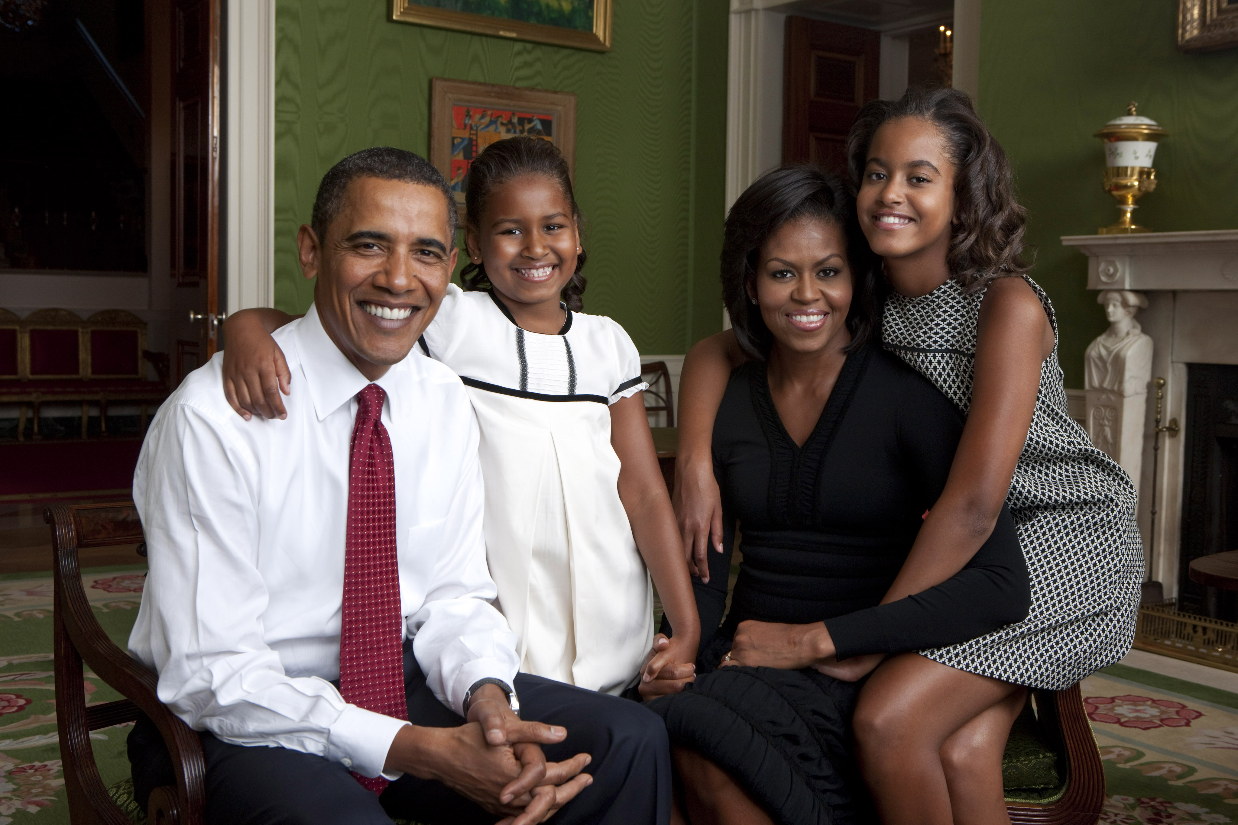 President Barack Obama, First Lady Michelle Obama, and their daughters, Sasha and Malia, sit for a family portrait in the Green Room of the White House, Sept. 1, 2009.